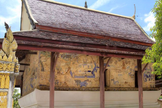 This is an older Isan style wat with murals covering all the four outer walls. This view shows the left side of the wat that is entirely covered with scenes from Sang Sinxay.